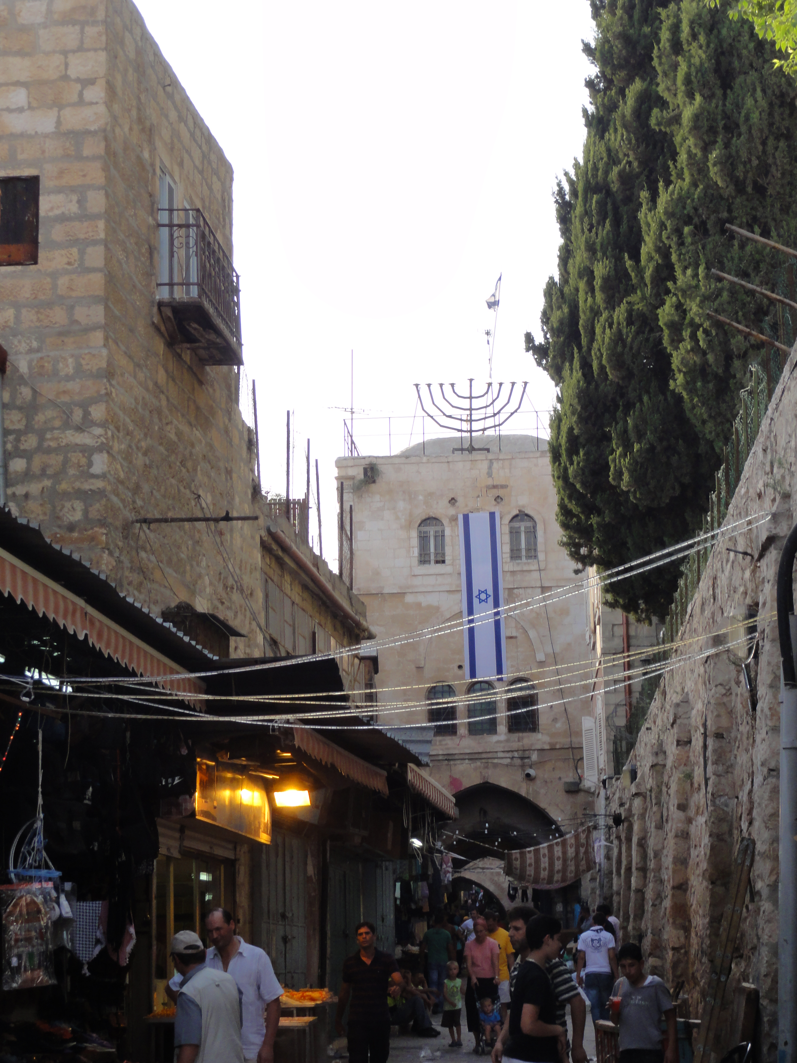 Old City of Jerusalem, - Looking northwest from near Station of the Cross IV up El Wad street in the Muslim Quarter of the Old City of Jerusalem. The building furthest away is a house owned by former Israeli Prime Minister Ariel Sharon.